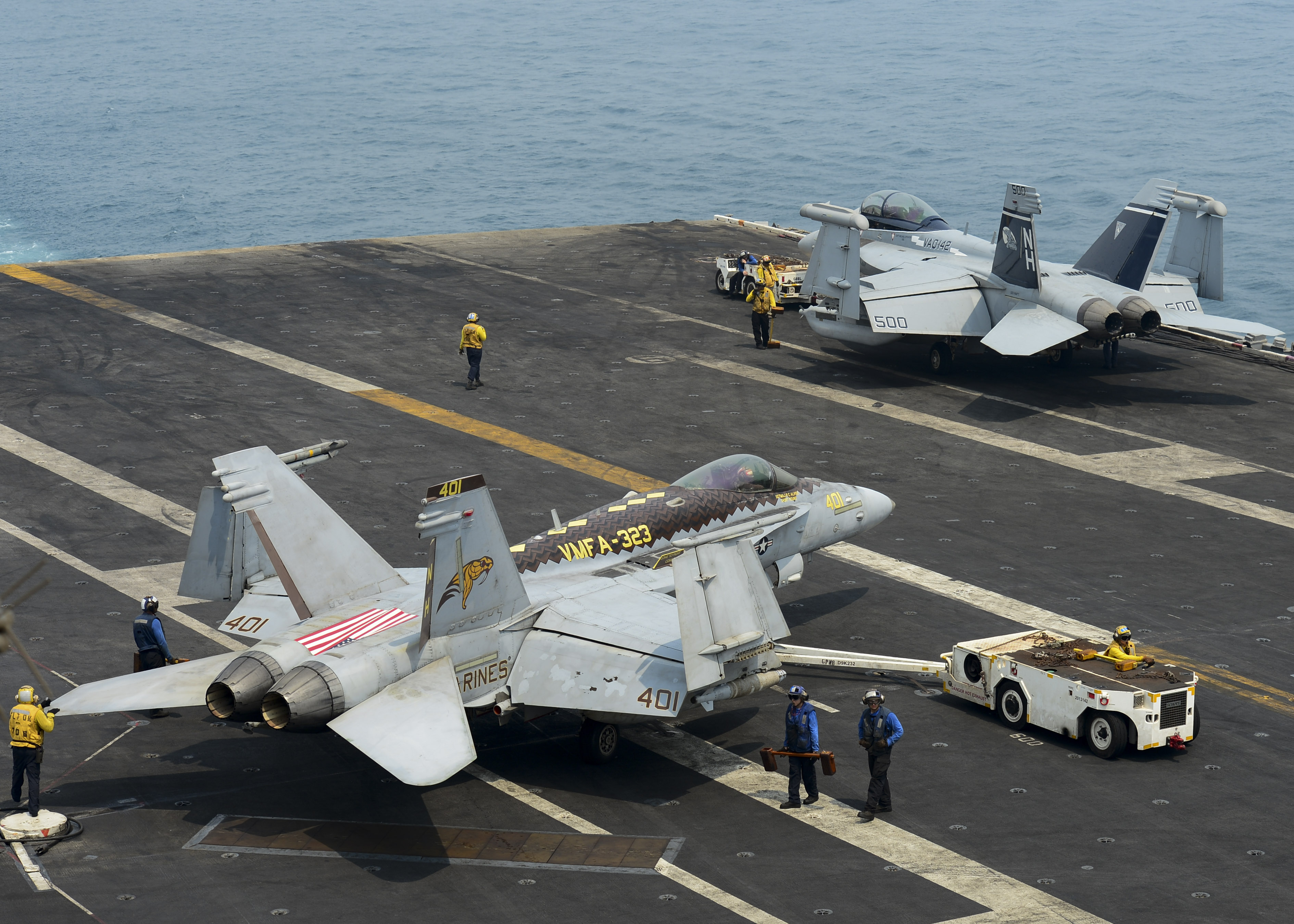 U.S. Navy sailors participate in aircraft handling operations aboard the aircraft carrier USS Nimitz (CVN-68) in the Arabian Gulf on 21 August 2017. Visibla ar a McDonnell Douglas F/A-18C Hornet of Marine Fighter Attack Squadron 323 (VMFA-323) "Death Rattlers" and a Boeing EA-18G Growler from Electronic Attack Squadron 142 (VAQ-142) "Gray Wolves". both squadrons were assigned to Carrier Air Wing 11 (CVW-11) aboard the Nimitz for a deployment to the U.S. 5th Fleet area of operations in support of "Operation Inherent Resolve".